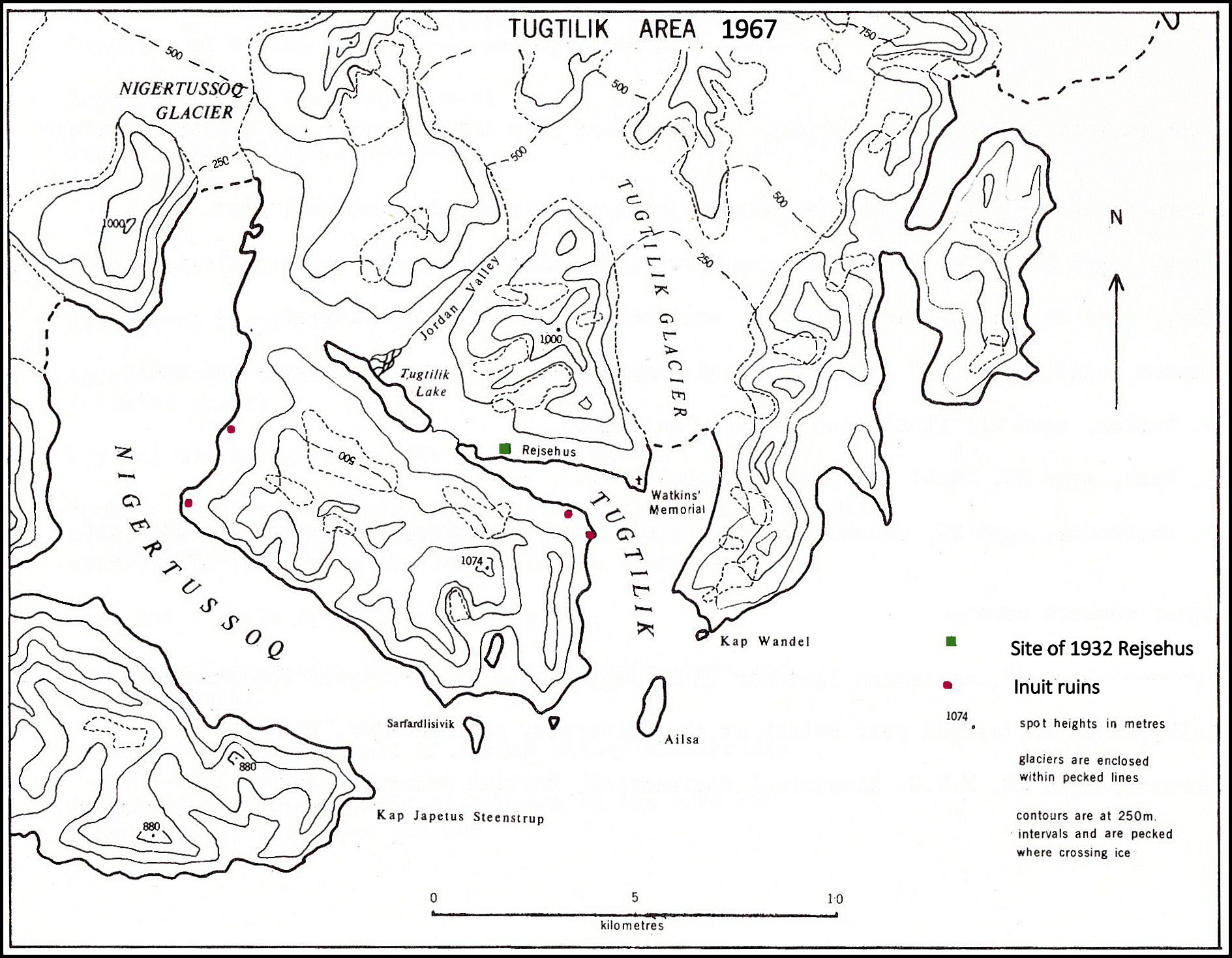 Map of Tuttilik, showing the location of inuit ruins, the site of the hut built by Ejnar Mikkelsen in 1932 and the site of Gino Watkin's memorial. (University of Newcastle East Greenland Expedition 1967)